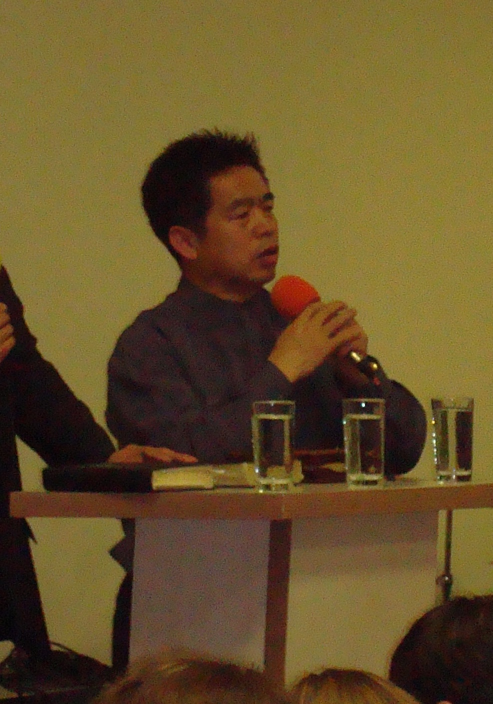 Brother Yun, a Chinese Christian, holding a seminar in Zagreb, Croatia, 2010.